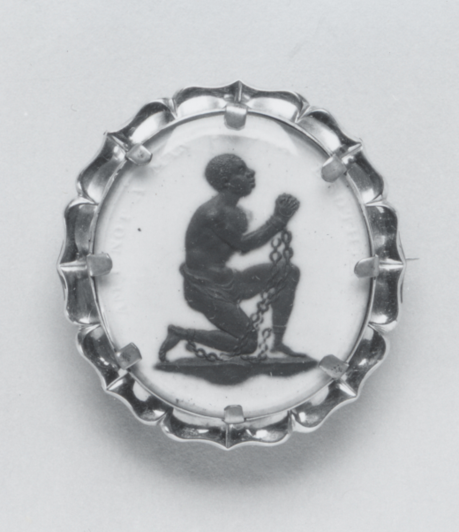 Josiah Wedgwood (1730-1795), a potter and leading member of Great Britain's Society for the Abolition of the Slave Trade, had this medallion modeled by Hackwood to be produced in ceramic. It is inscribed: "Am I not a Man and a Brother." During the early 19th century, the medallion was mounted in a gold brooch. The image of the half-nude black kneeling in prayer was a popular image for abolitionists in both Great Britain and the United States.